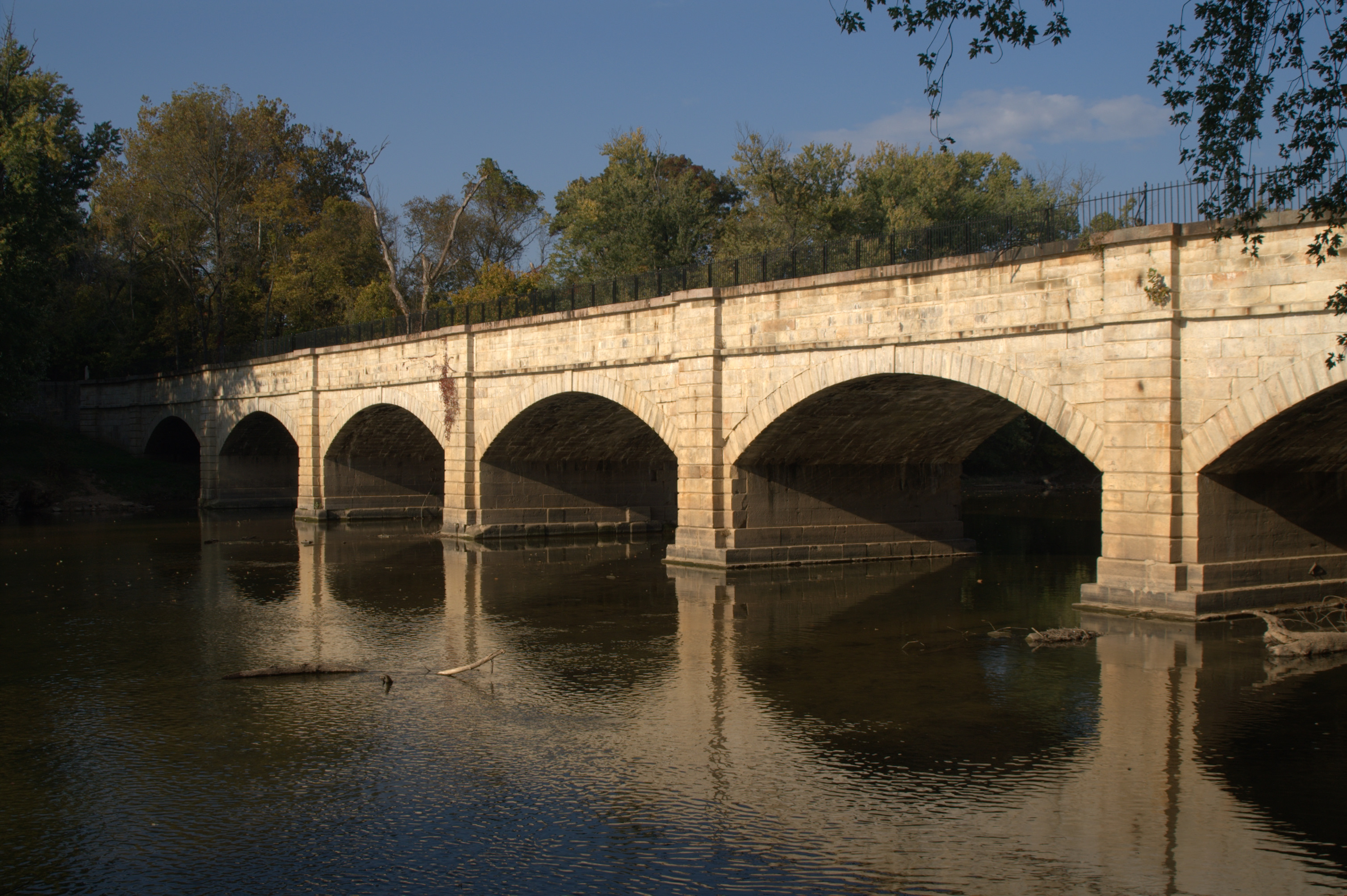 Monocacy Aqueduct seen from south-west.